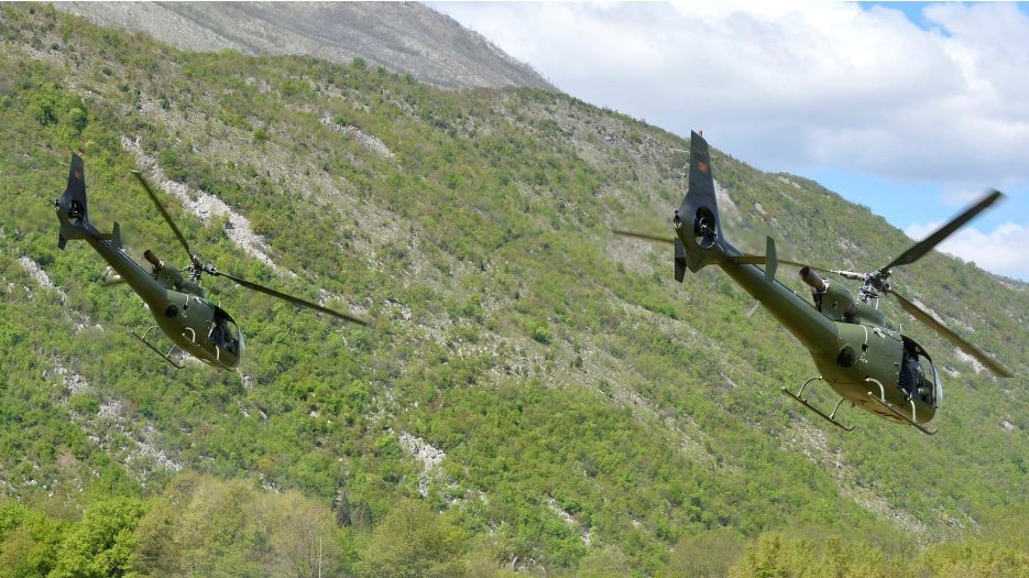 Cropped version of this image